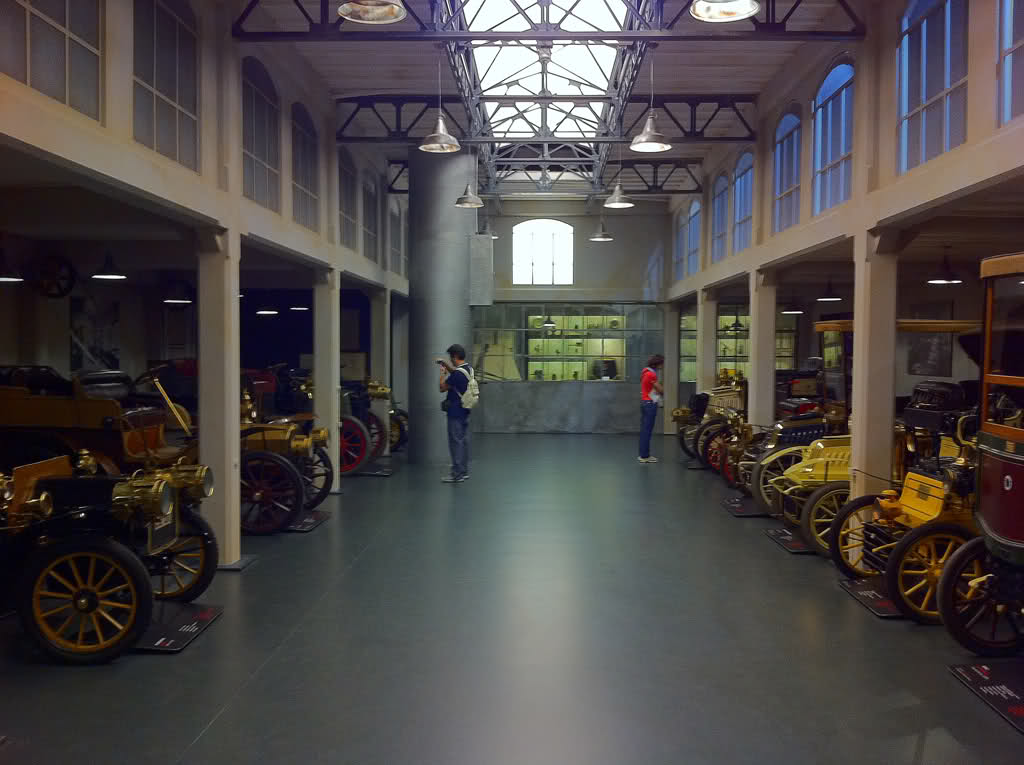 workshop in Automobiles Museum in Turin